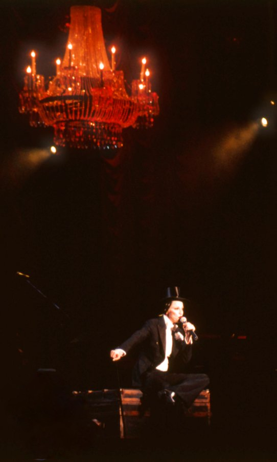 Madonna performing Like a Virgin during her Girlie Show World Tour